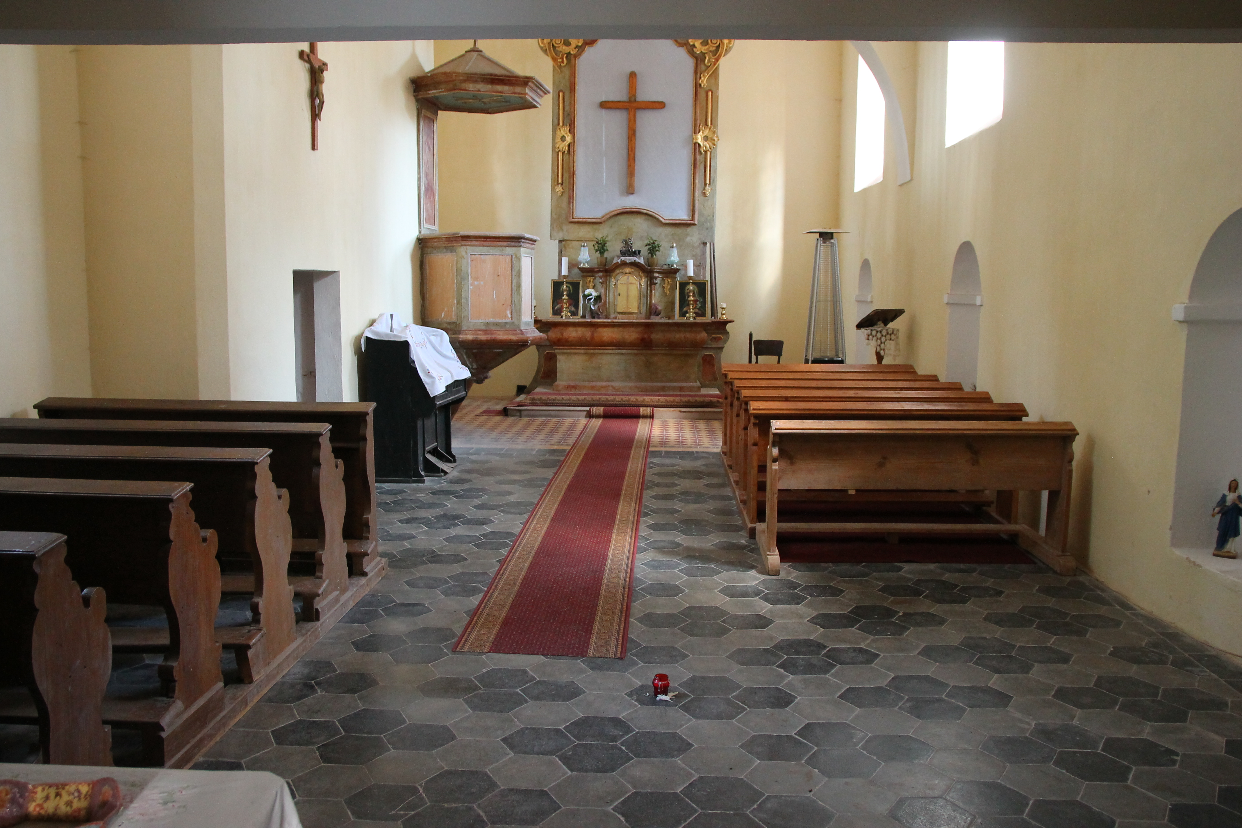 Aldašín